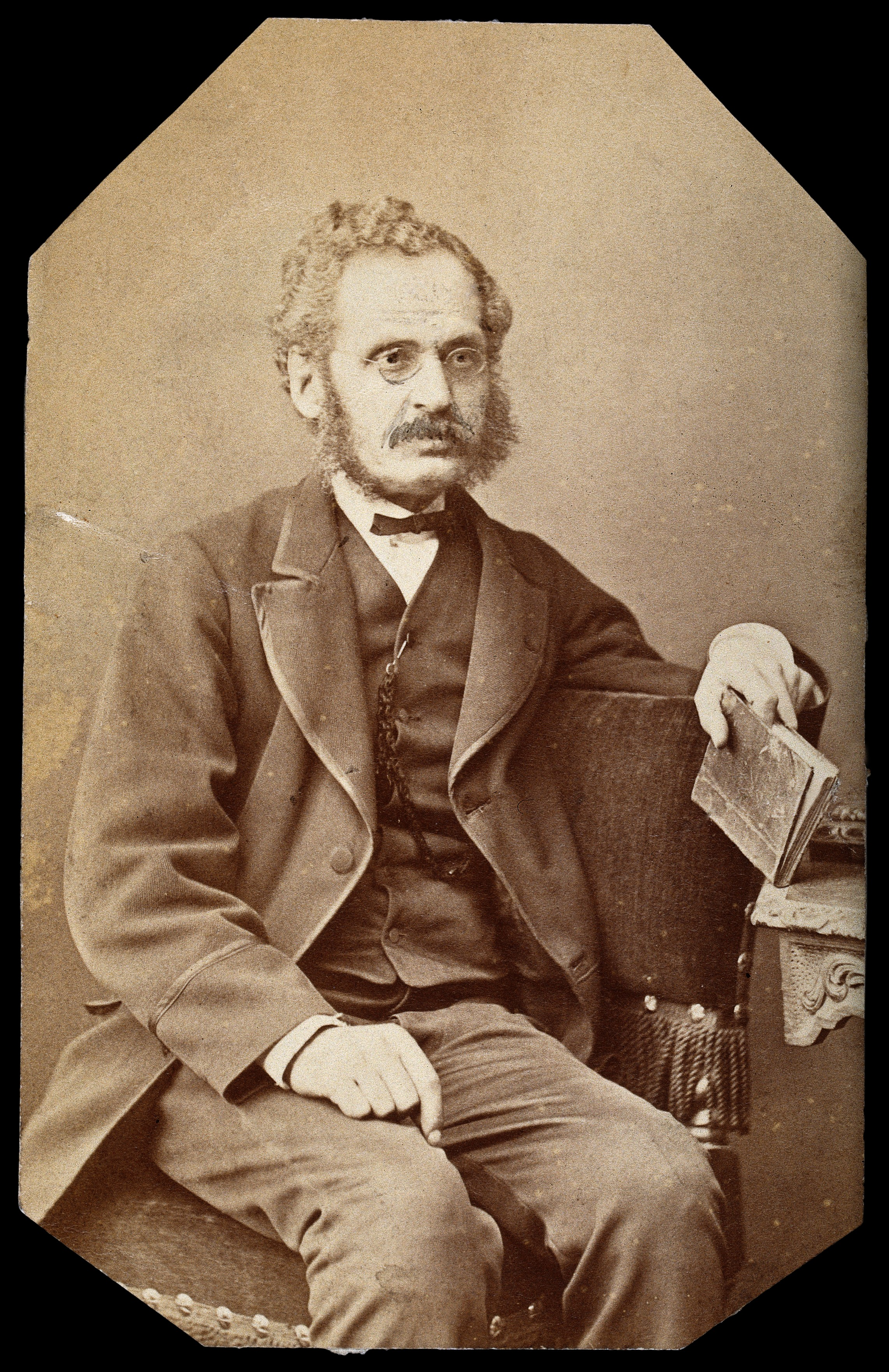 Henry Walter Bates. Photograph. Iconographic Collections Keywords: portrait photographs